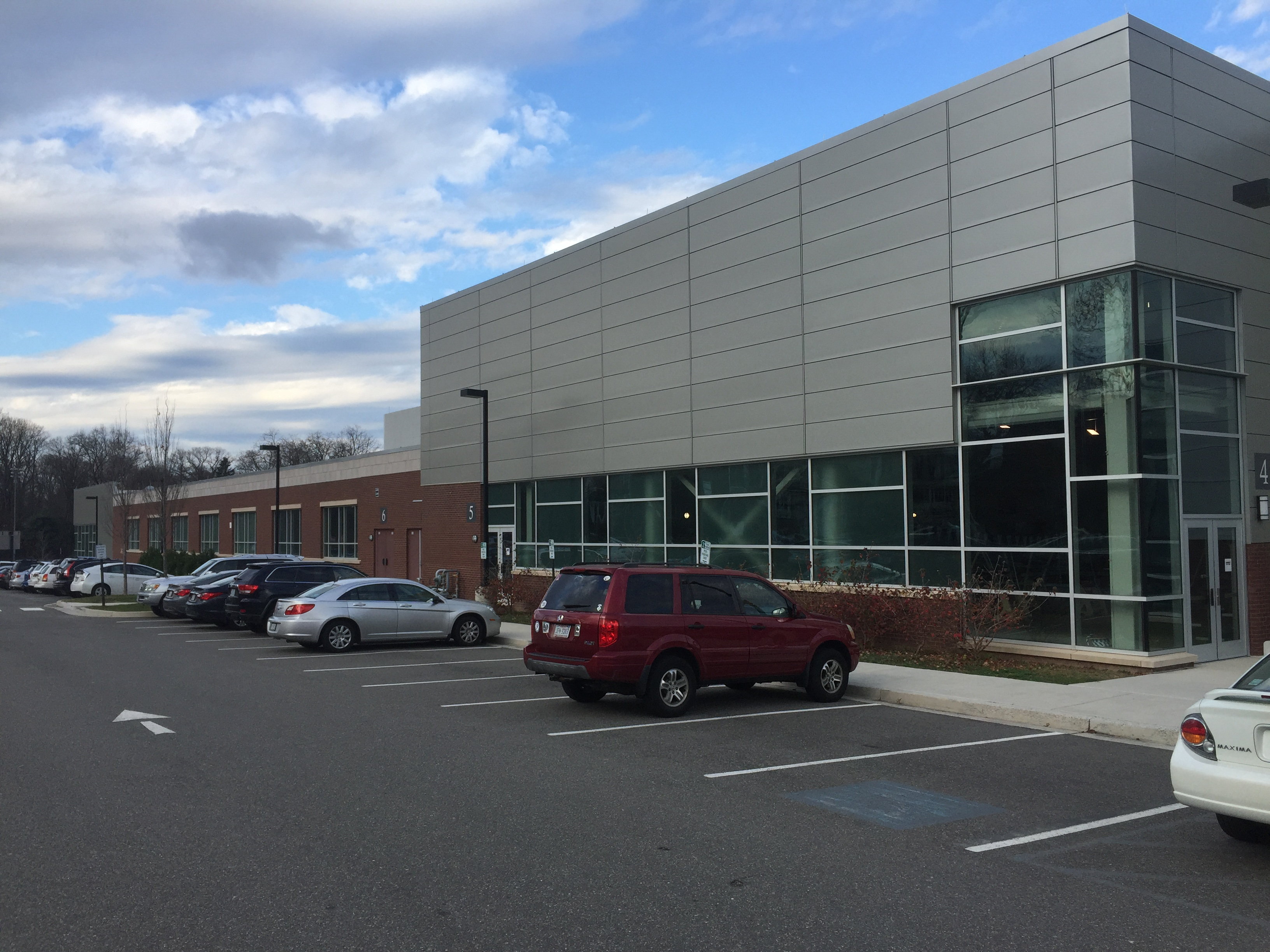 Yorktown High School after renovation, pool side